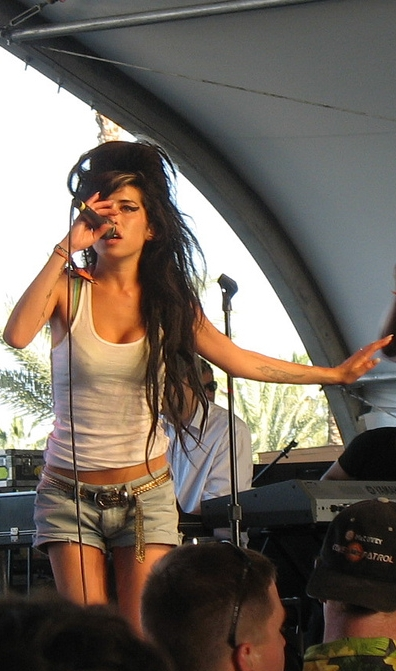 Winehouse Coachella